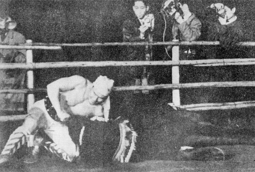 Masutatsu Oyama,kyokusin karate